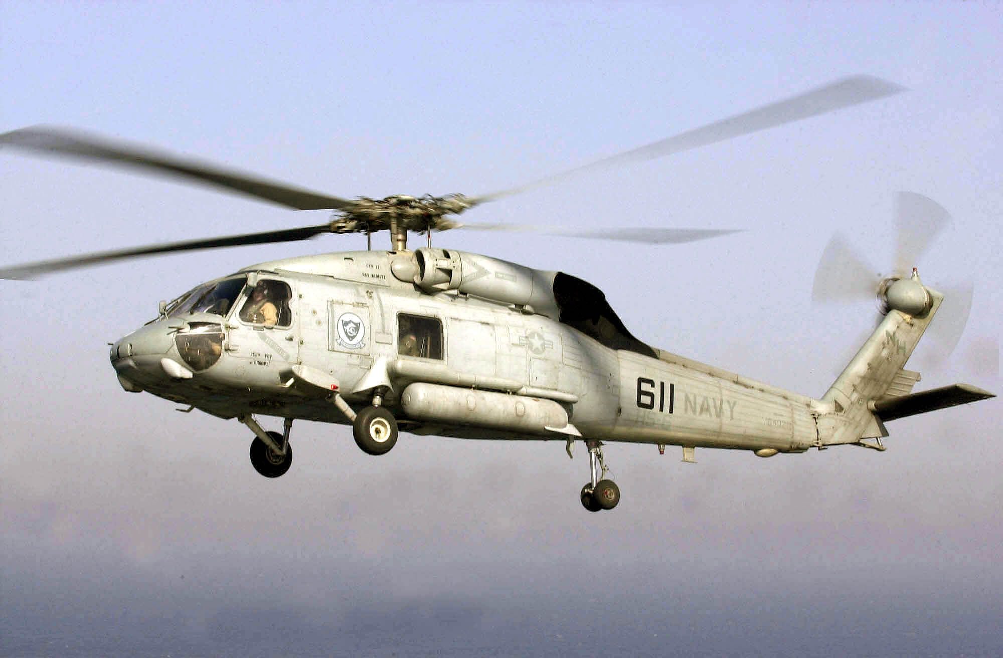 The Arabian Gulf (Apr. 24, 2003) -- An SH-60 “Seahawk” assigned to the “Screaming Indians” of Helicopter Antisubmarine Squadron Six (HS-6), flies as plane guard, providing search and rescue response during Flight Operations around USS Nimitz (CVN 68). Nimitz Carrier Strike Group and Carrier Air Wing Eleven (CVW-11) are currently deployed in support of Operation Iraqi Freedom. Operation Iraqi Freedom is the multi-national coalition effort to liberate the Iraqi people, eliminate Iraqi’s weapons of mass destruction, and end the regime of Saddam Hussein. U.S. Navy photo by Photographer’s Mate 3rd Class Elizabeth Thompson. (RELEASED)